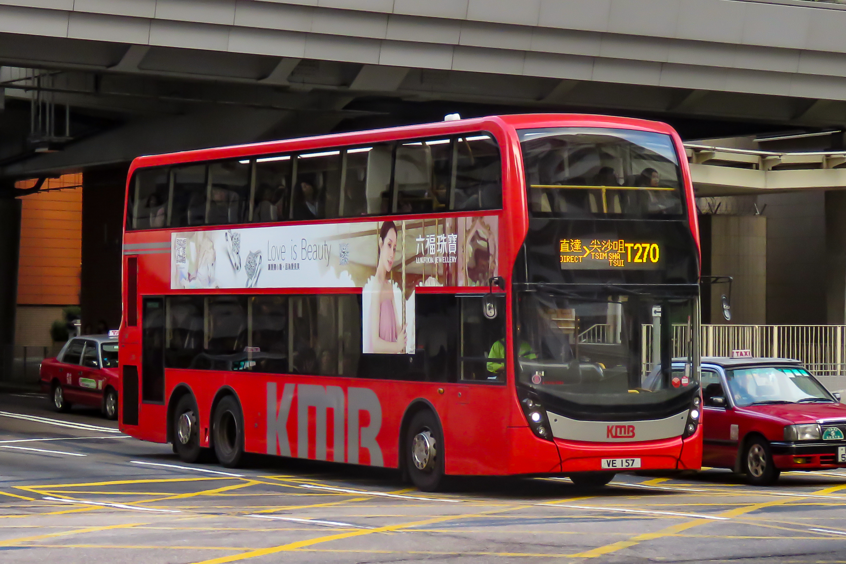 Still remember the "sleeping beauty" in KMB's "Dream Journey" poster promoting T270 and T277 in 2014? Today's third (last) T270 is run by this red Facelift.